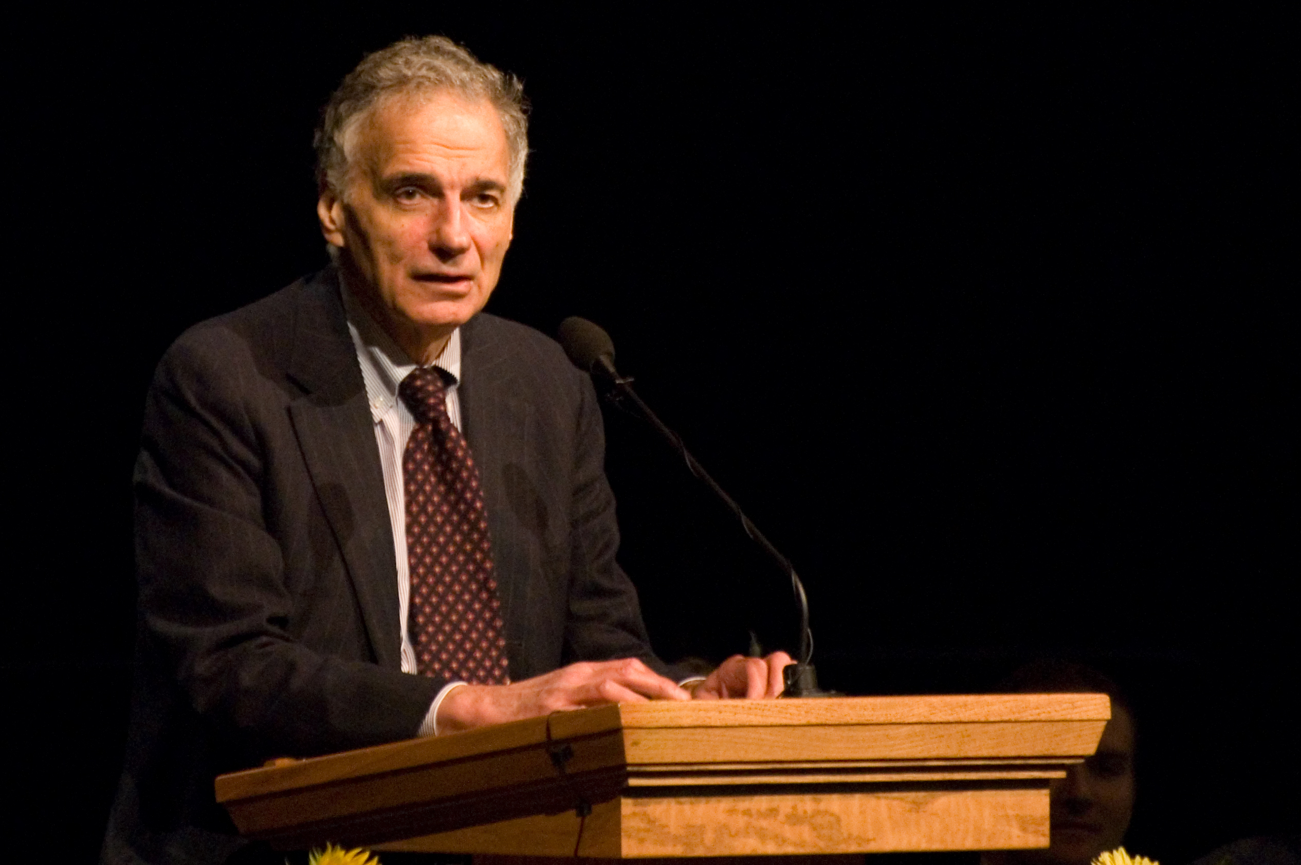 Ralph Nader, speaking at BYU's Alternate Commencement